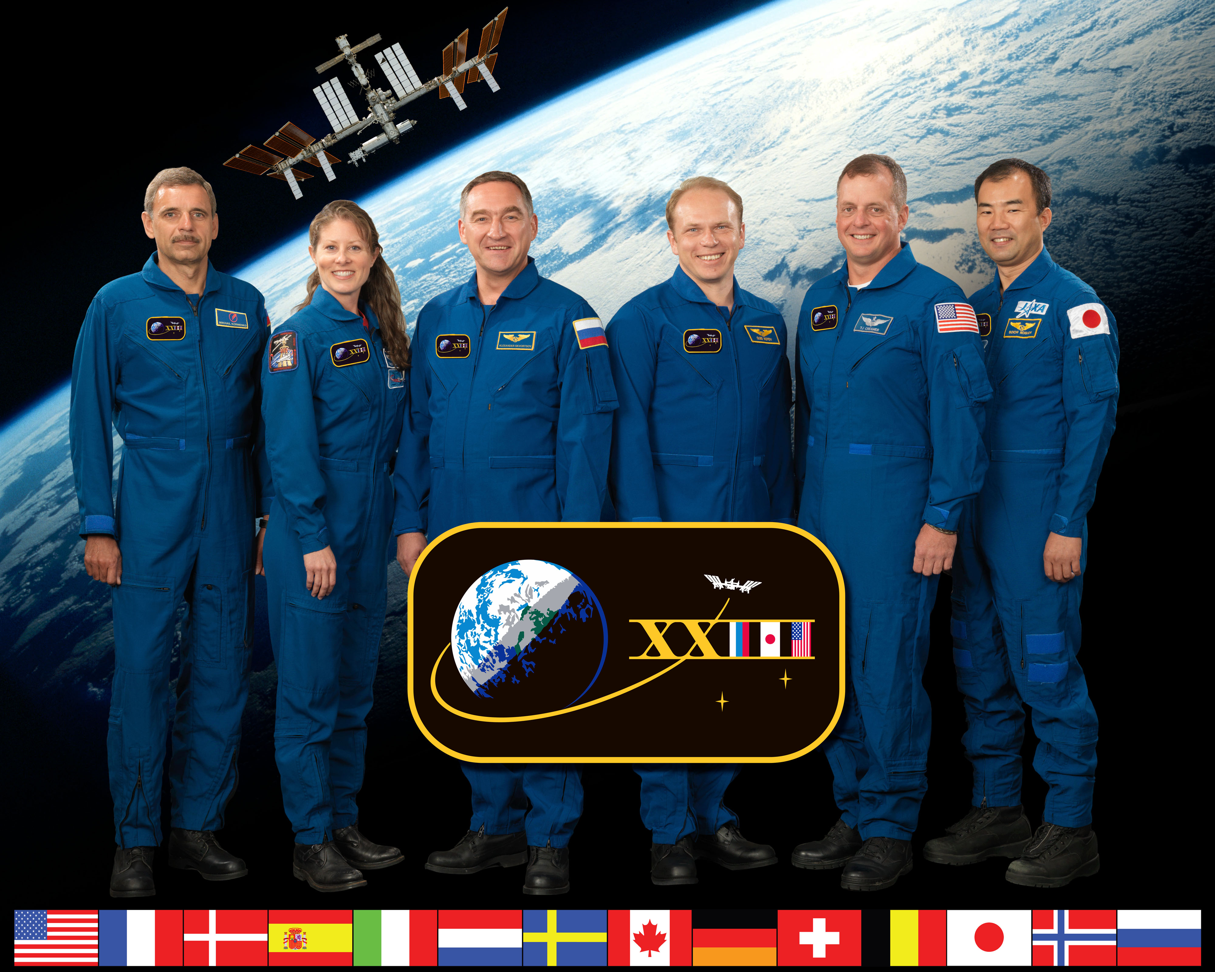 Expedition 23 crew members. From the left are Russian cosmonaut Mikhail Kornienko, NASA astronaut Tracy Caldwell Dyson, Russian cosmonaut Alexander Skvortsov, all flight engineers; Russian cosmonaut Oleg Kotov, commander; NASA astronaut T.J. Creamer and Japan Aerospace Exploration Agency (JAXA) astronaut Soichi Noguchi, both flight engineers.